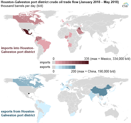 The U.S. port district of Houston-Galveston in Texas began exporting more crude oil than it imported for the first time on record in April 2018. August 20, 2018